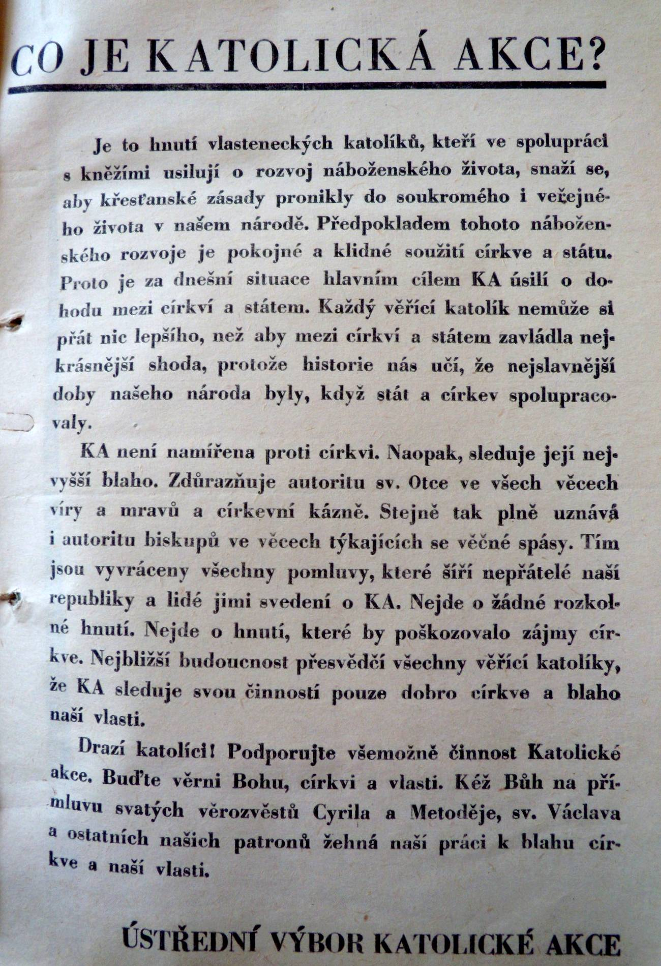 The leaflet of so called Catholic action, Czechoslovakia 1949.